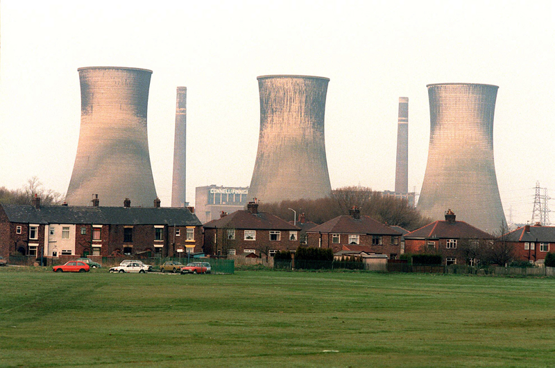 Chadderton Power Station, in Chadderton, Greater Manchester, England. Seen here in 1986 - the year it was demolished.